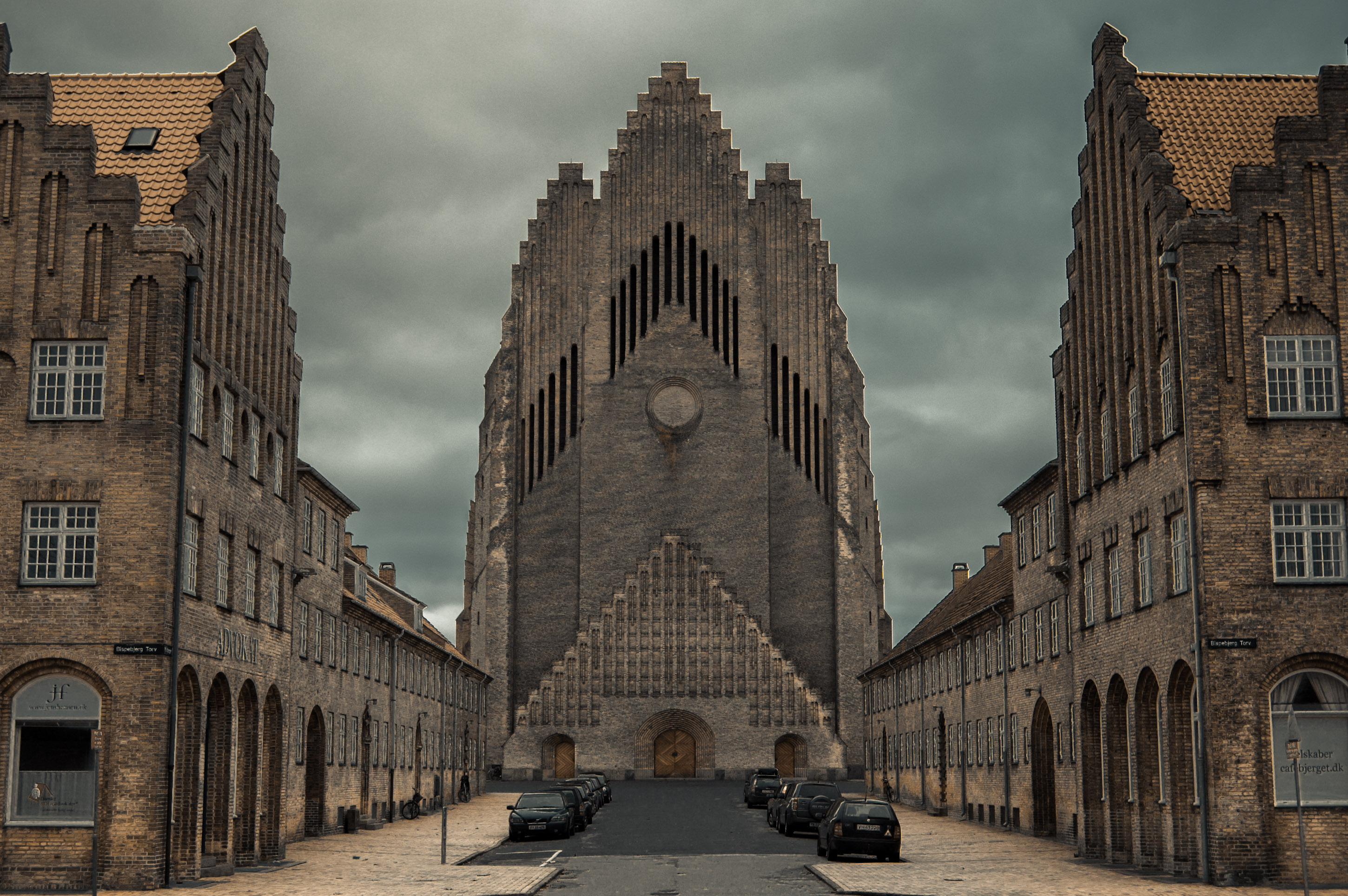 Grundvig Memorial Church in Copenhagen shot upfront (from the west)